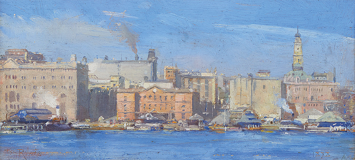 9.5 (h) x 20.0 (w) cm. Signed l.l. (inc ised with brush end), 'Tom Roberts', dated l.r., '1898